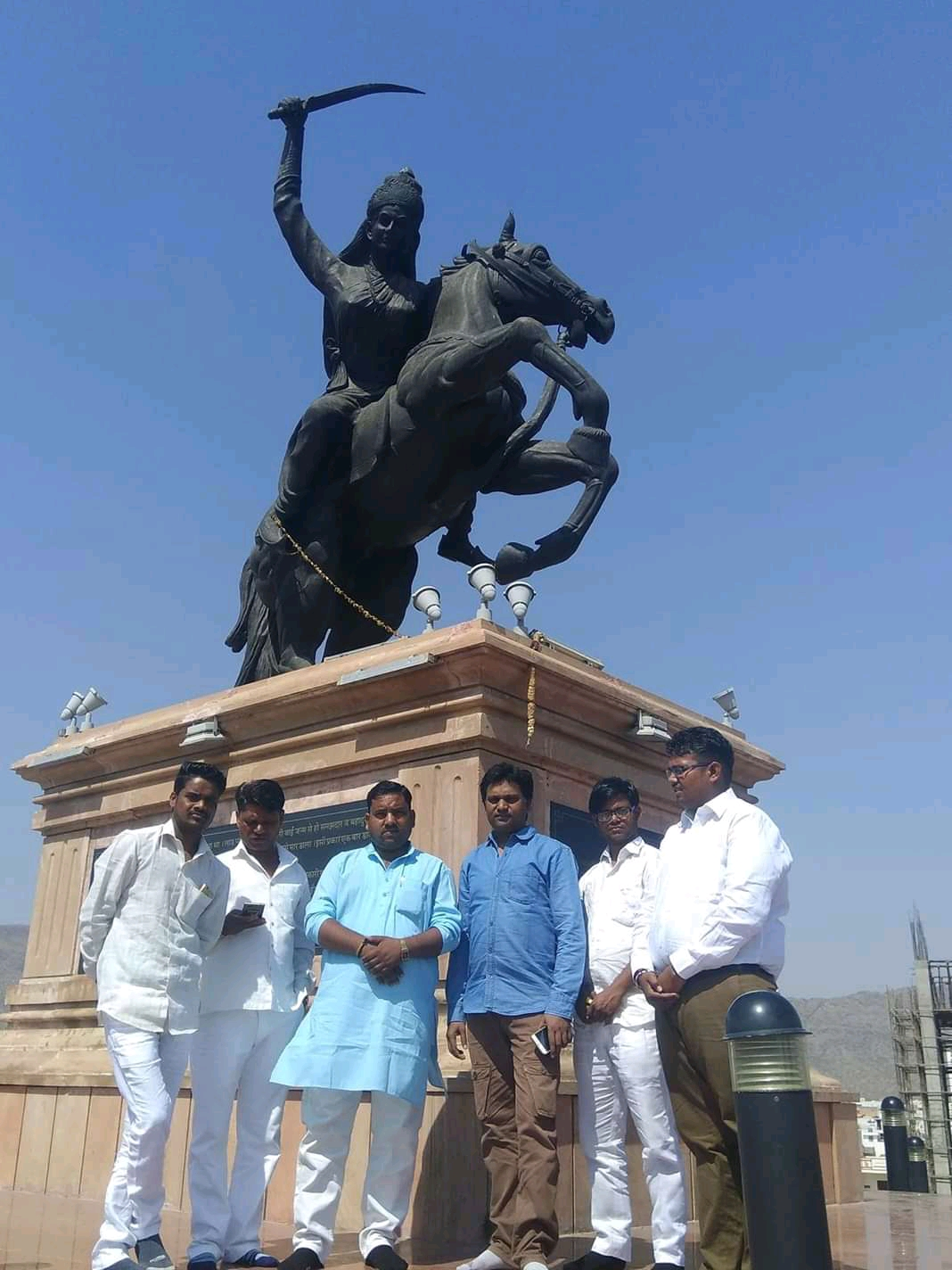 Jhalkari Bai Statue